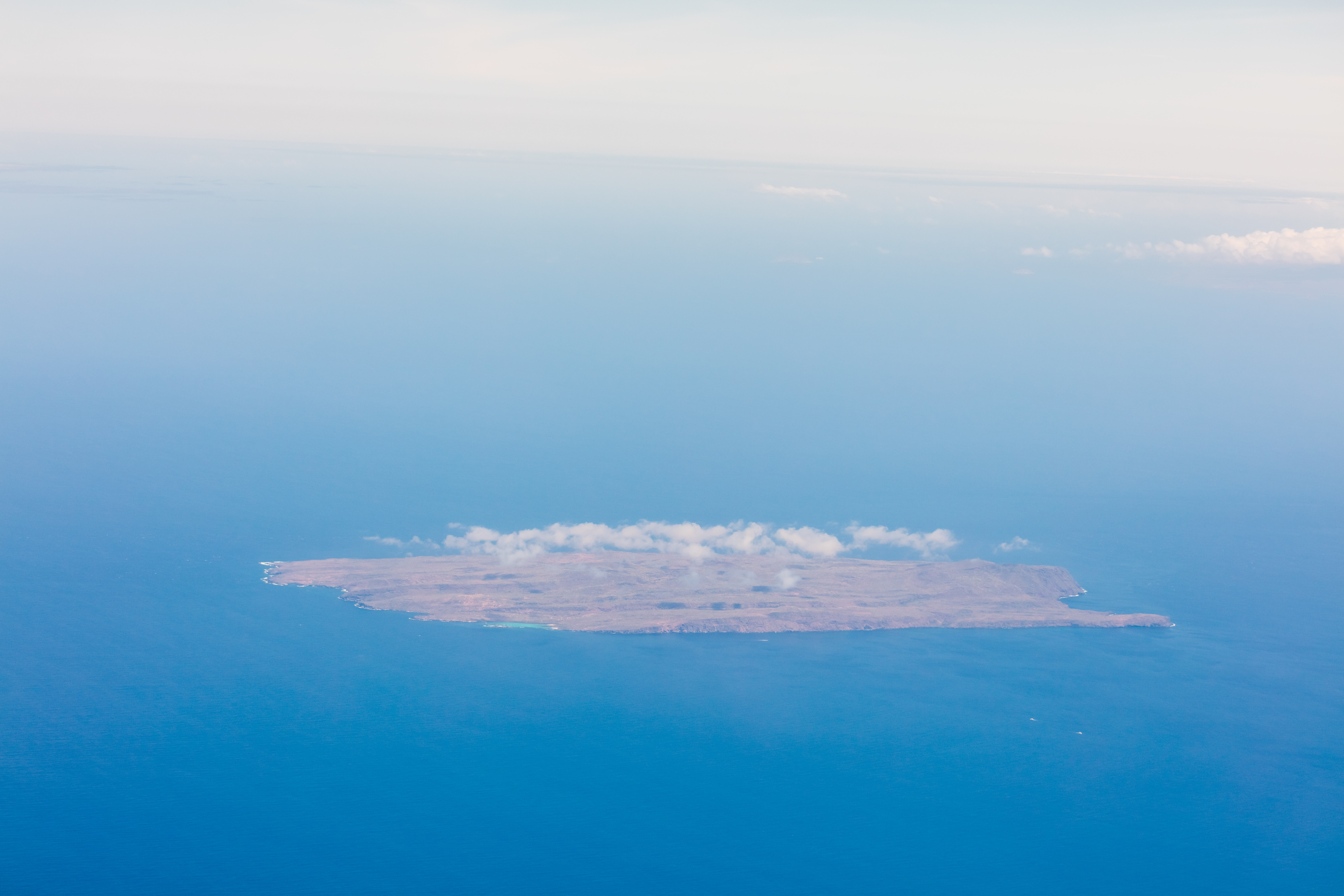 North Seymour Island, Galapagos Islands, Ecuador